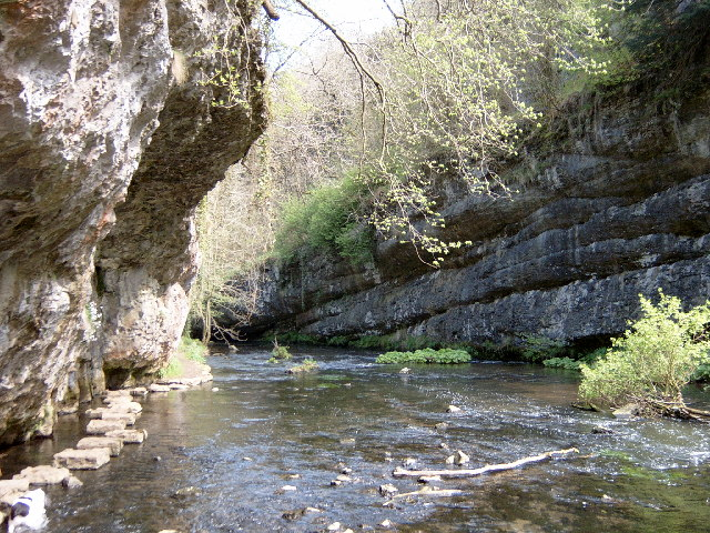 Chee Dale. One of the stepping stone sections along Chee Dale.